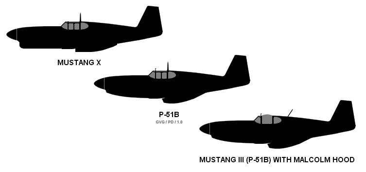 Side-view silhouettes of North American Mustang X, P-51B Mustang and Mustang III.